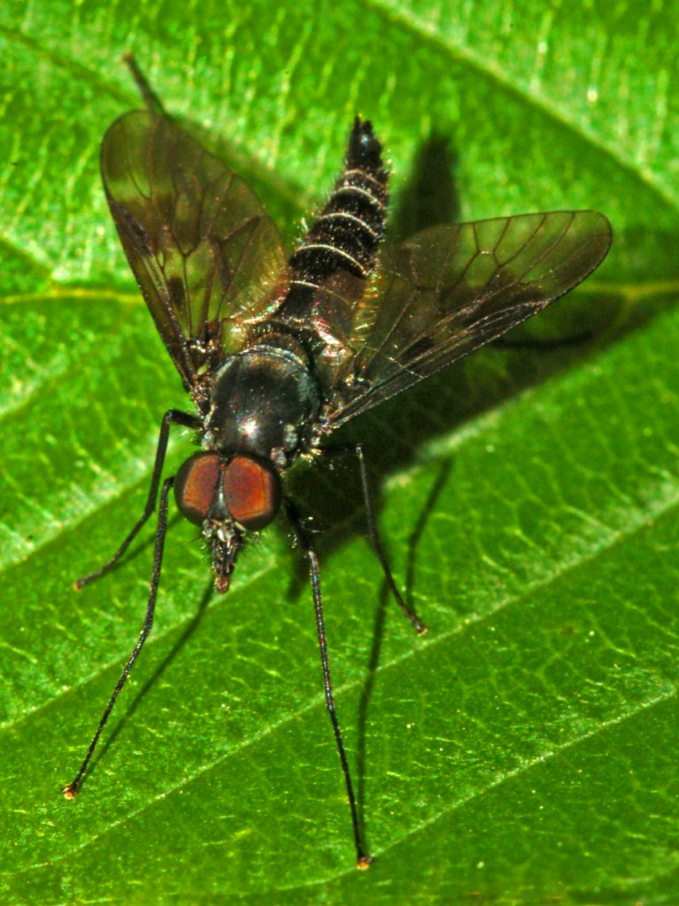 "Ibisia marginata", male (synonym "Atherix marginata")